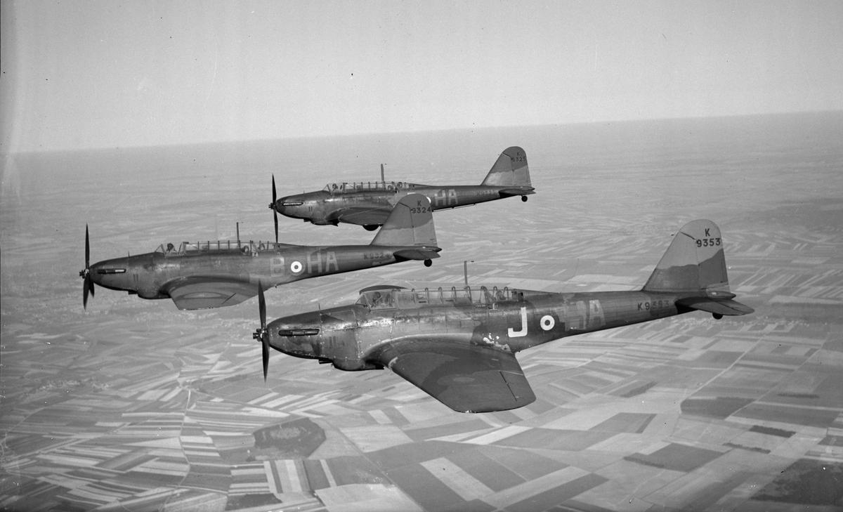 Royal Air Force in France, 1939-1940. Three Fairey Battle Mark Is, K9353 ‘HA-J’, K9324 ‘HA-B’ and K9325 ‘HA-D’, of No. 218 Squadron RAF, based at Auberives-sur-Suippes, in flight over northern France. K9325 went missing during an attack on enemy troops near St Vith on 11 May 1940, and K9353 was shot down north of Bouillon the following day. K9324 survived the Battle of France to serve with the RAAF until 1944.